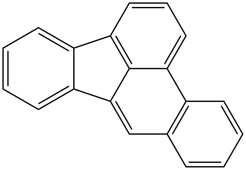 Chemical Structure - Benz[e]acephenanthrylene 03/05/2014